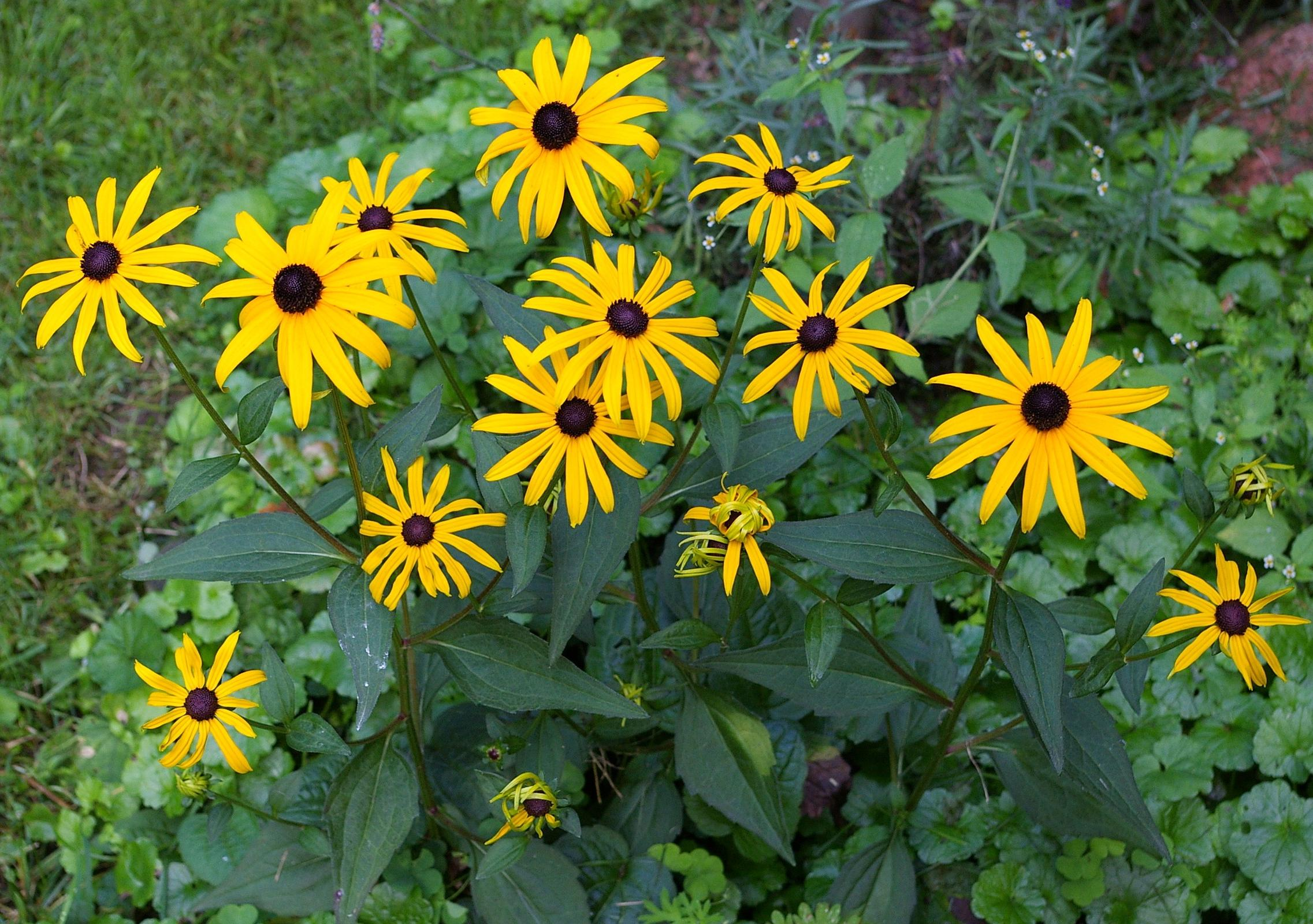 The ornamental garden plant Eastern Coneflower or Black-eyed Susan, Rudbeckia fulgida cv. 'Goldsturm' (Asteraceae).